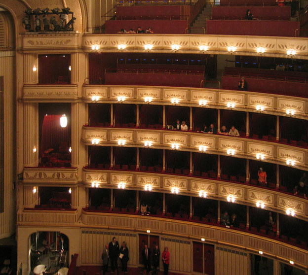 Wien, Austria: Wiener Staatsoper (Vienna State Opera), auditorium